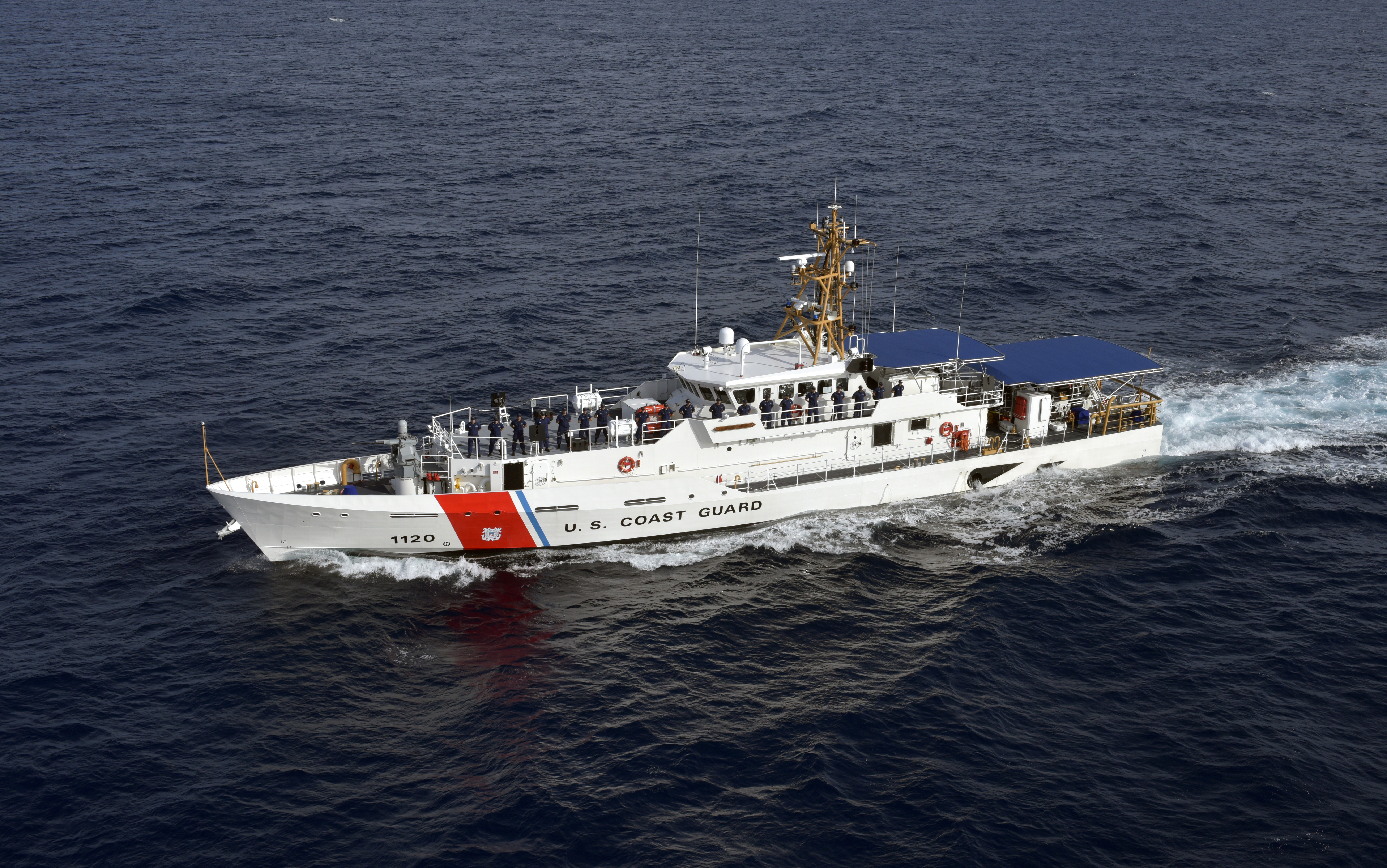 Lawrence Lawson conducts sea trials off the coast of Miami, Florida Original caption: “ The Coast Guard Cutter Lawrence Lawson crew mans the rail during sea trials off the coast of Miami, Florida, on Dec. 12, 2016. The ship will be the second fast response cutter stationed in Cape May, New Jersey, and is scheduled for commissioning in early 2017. (U.S. Coast Guard photo by Eric D. Woodall) ”